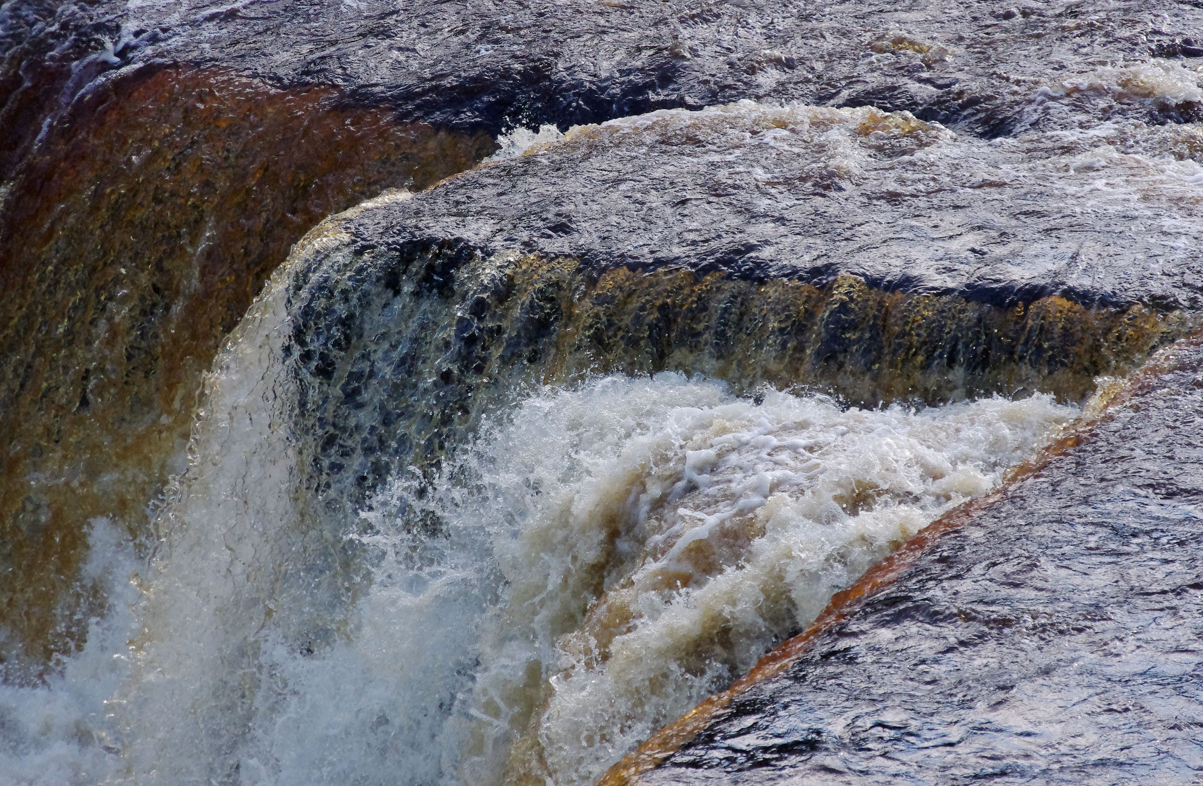 Very short exposure photo of the middle Aysgarth Falls in Yorkshire.